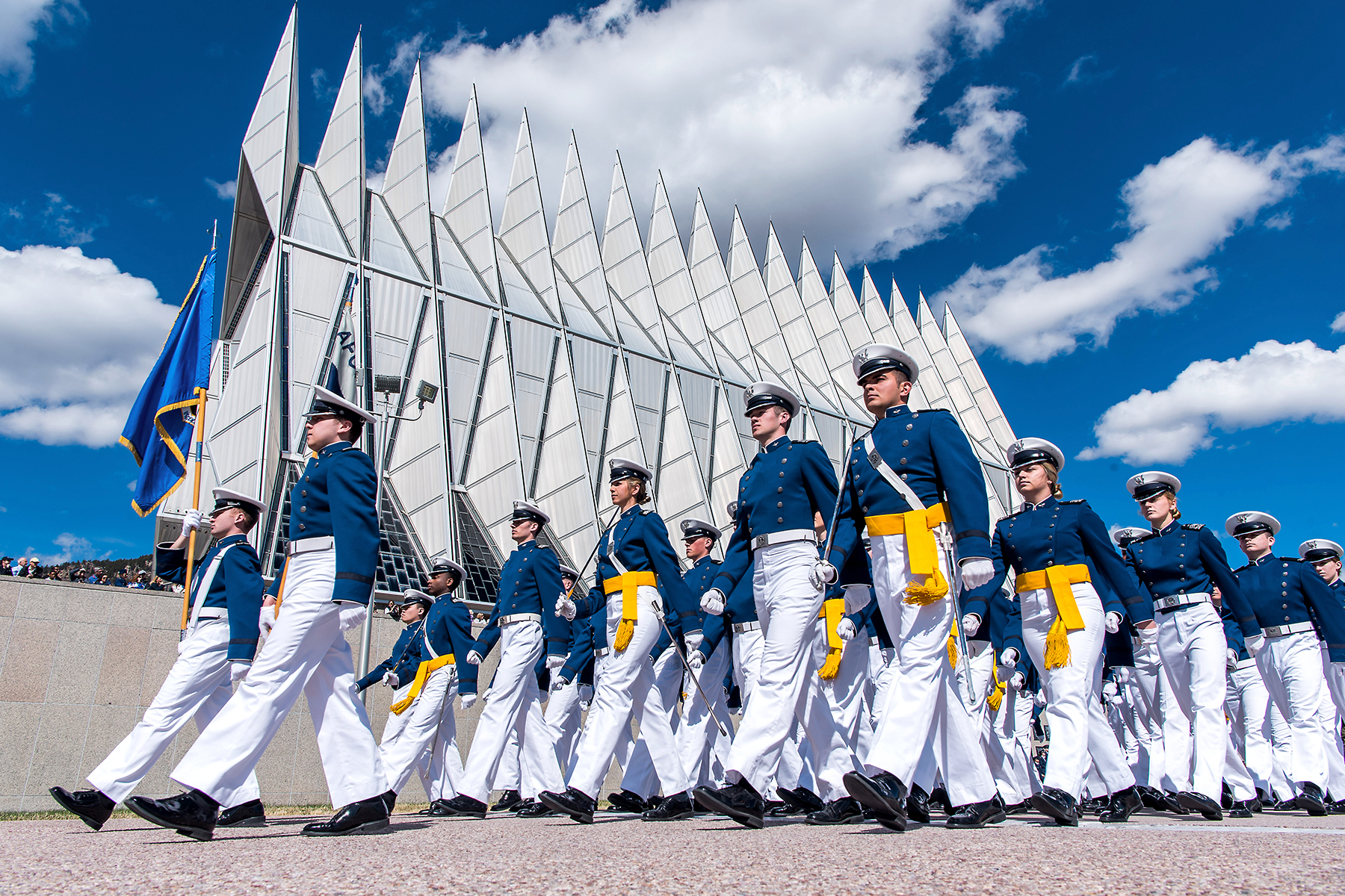 Air Force cadets march in formation during the Founder's Day parade at the U.S. Air Force Academy in Colorado Springs, Colo., April 6, 2019. The Founder's Day parade is an annual event that celebrates the legacy and the future of the Air Force Academy.